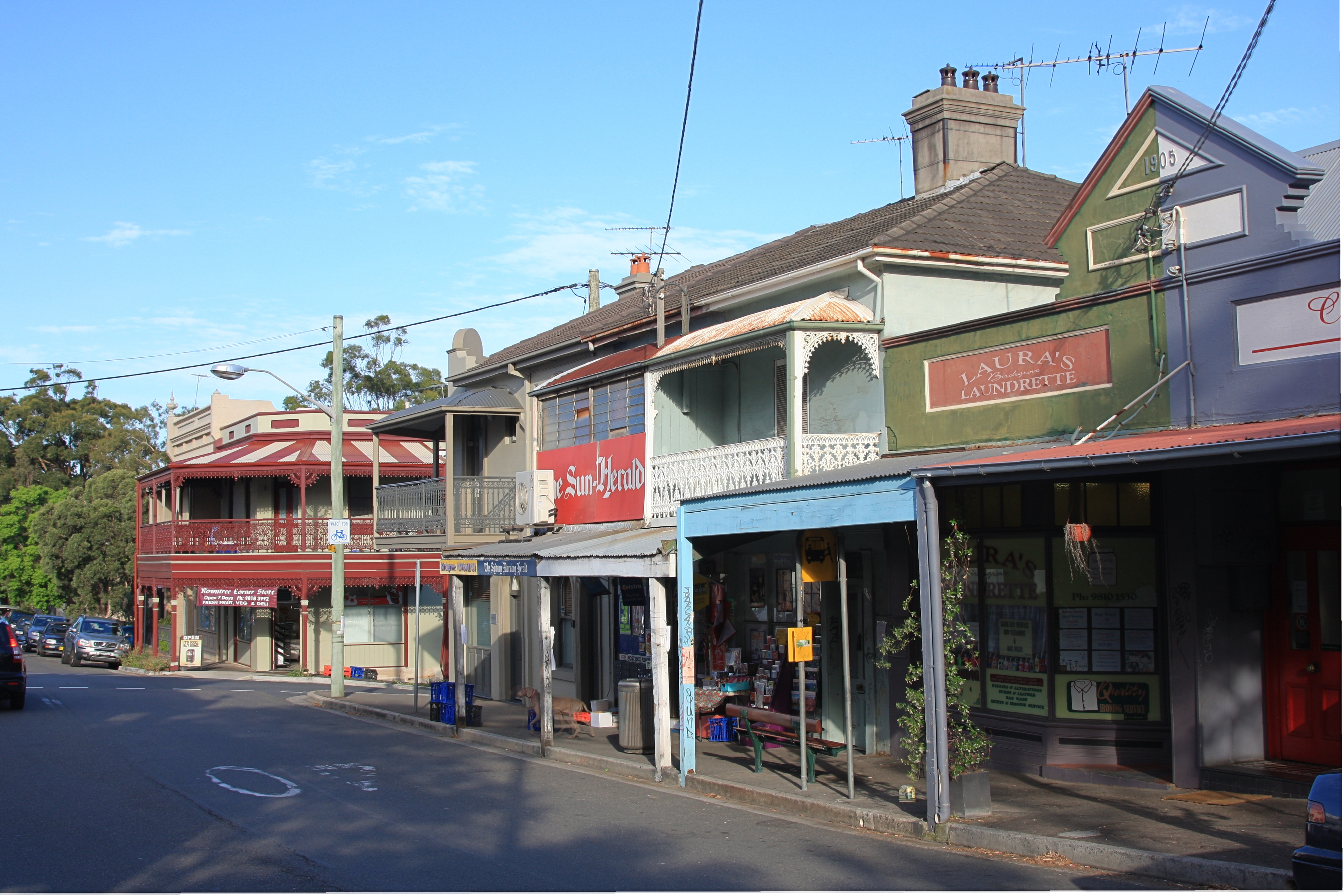 Birchgrove, New South Wales